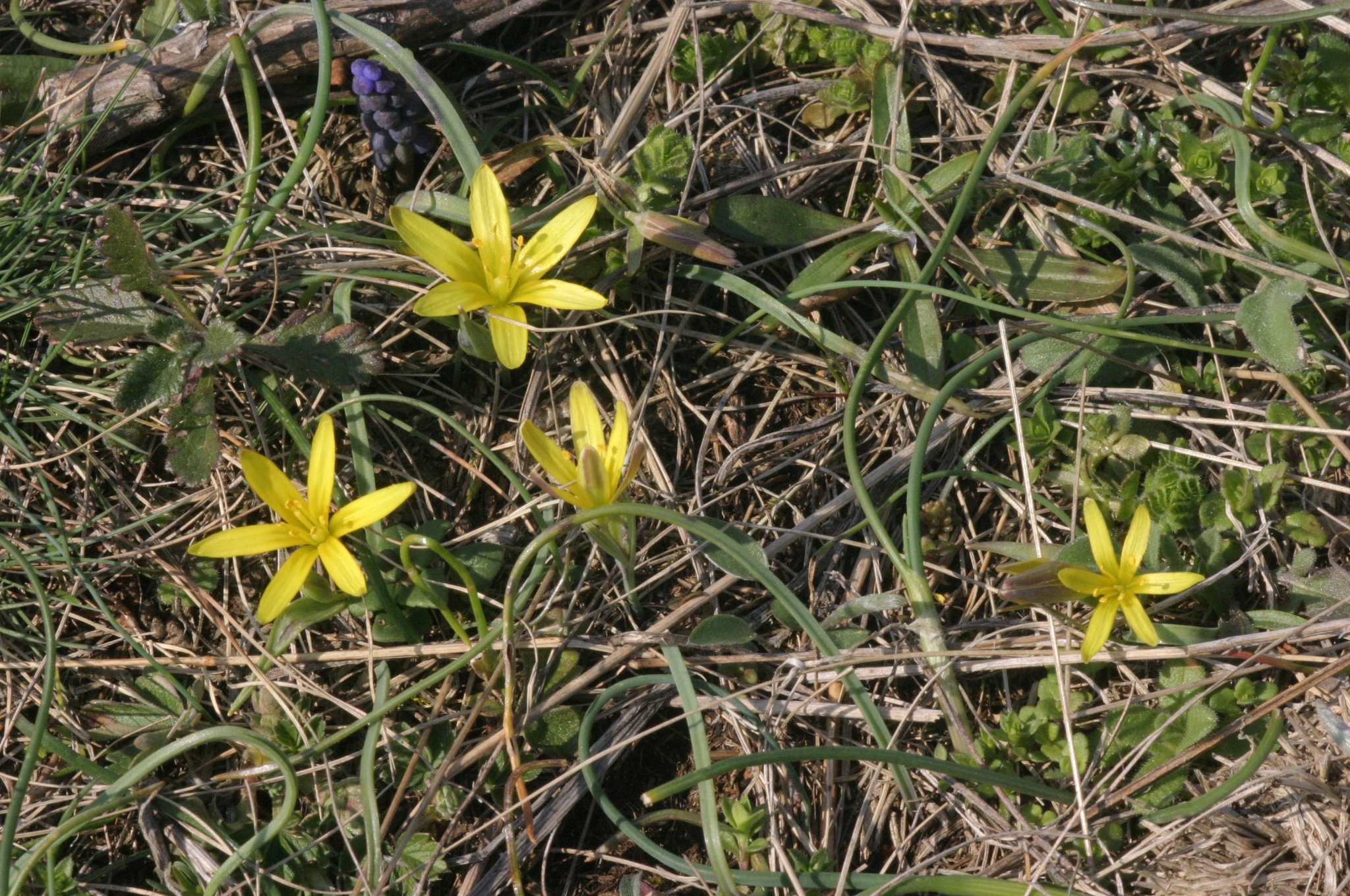 Gagea pusilla